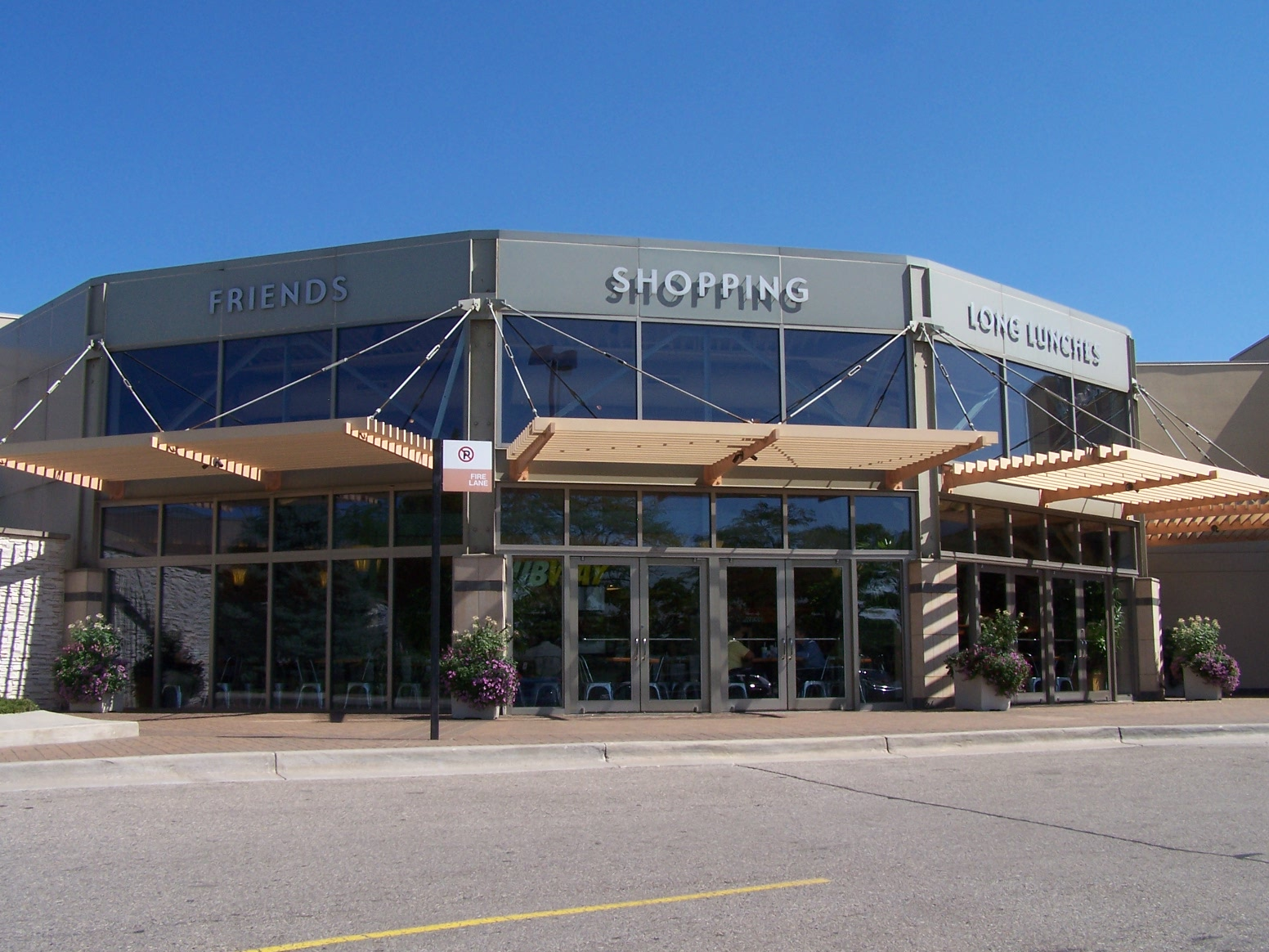 Fairlane Mall Entrance